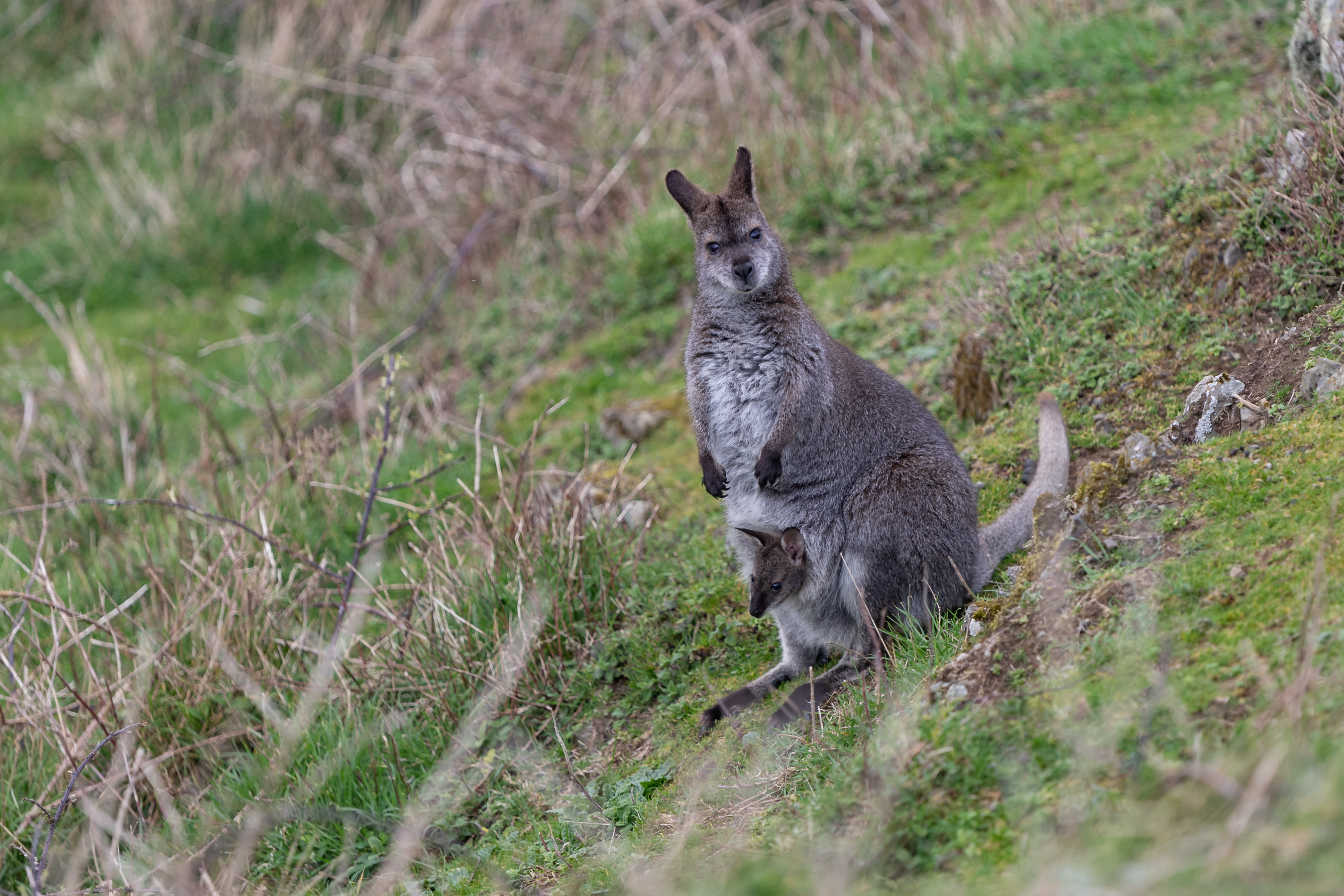 Red-necked wallaby (with joey) on Lambay Island